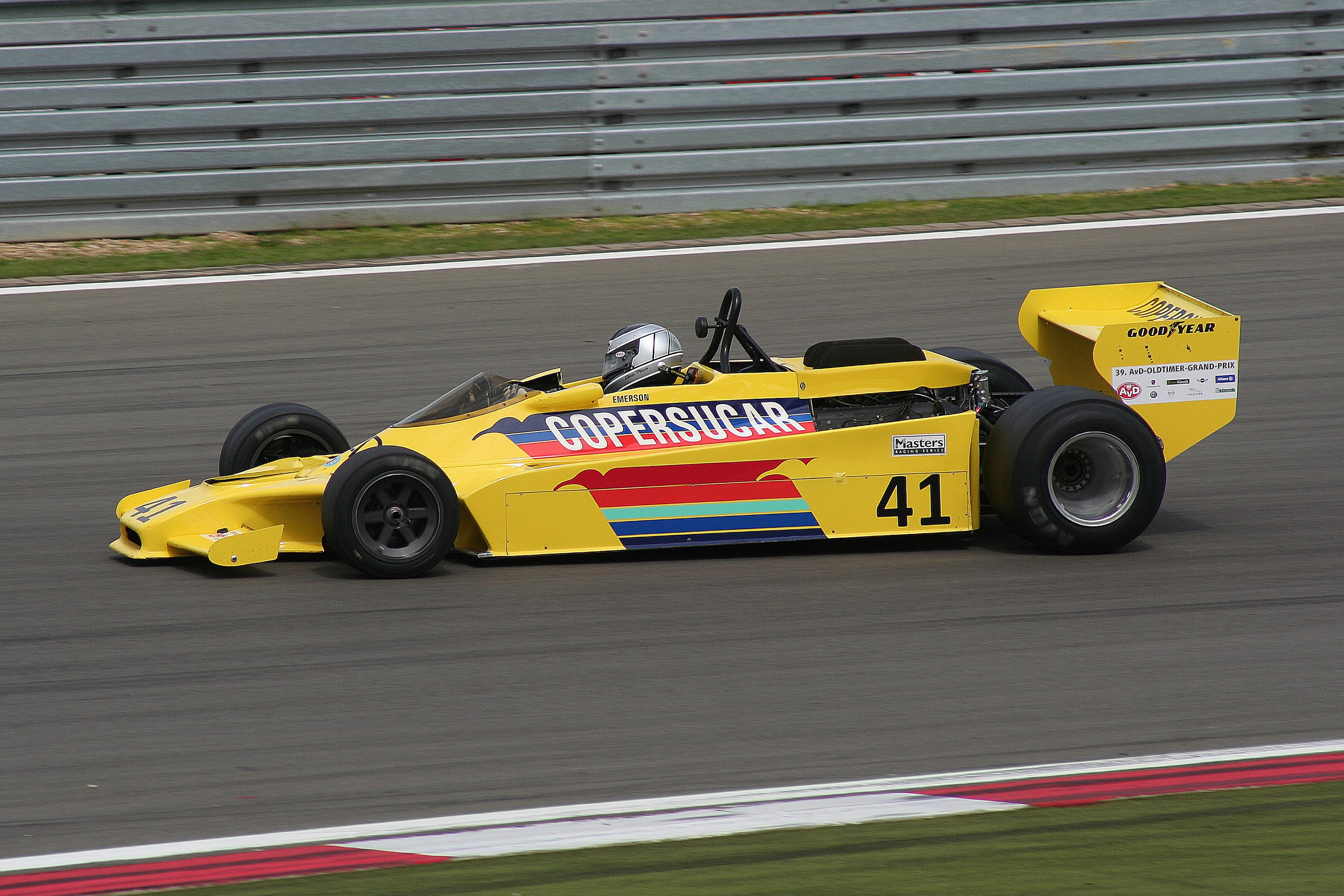 Fittipaldi F5, built in 1977, at AvD-Oldtimer-Grand-Prix on Nürburgring at the end of the home stretch. Driver: Alain Plasch, Belgium